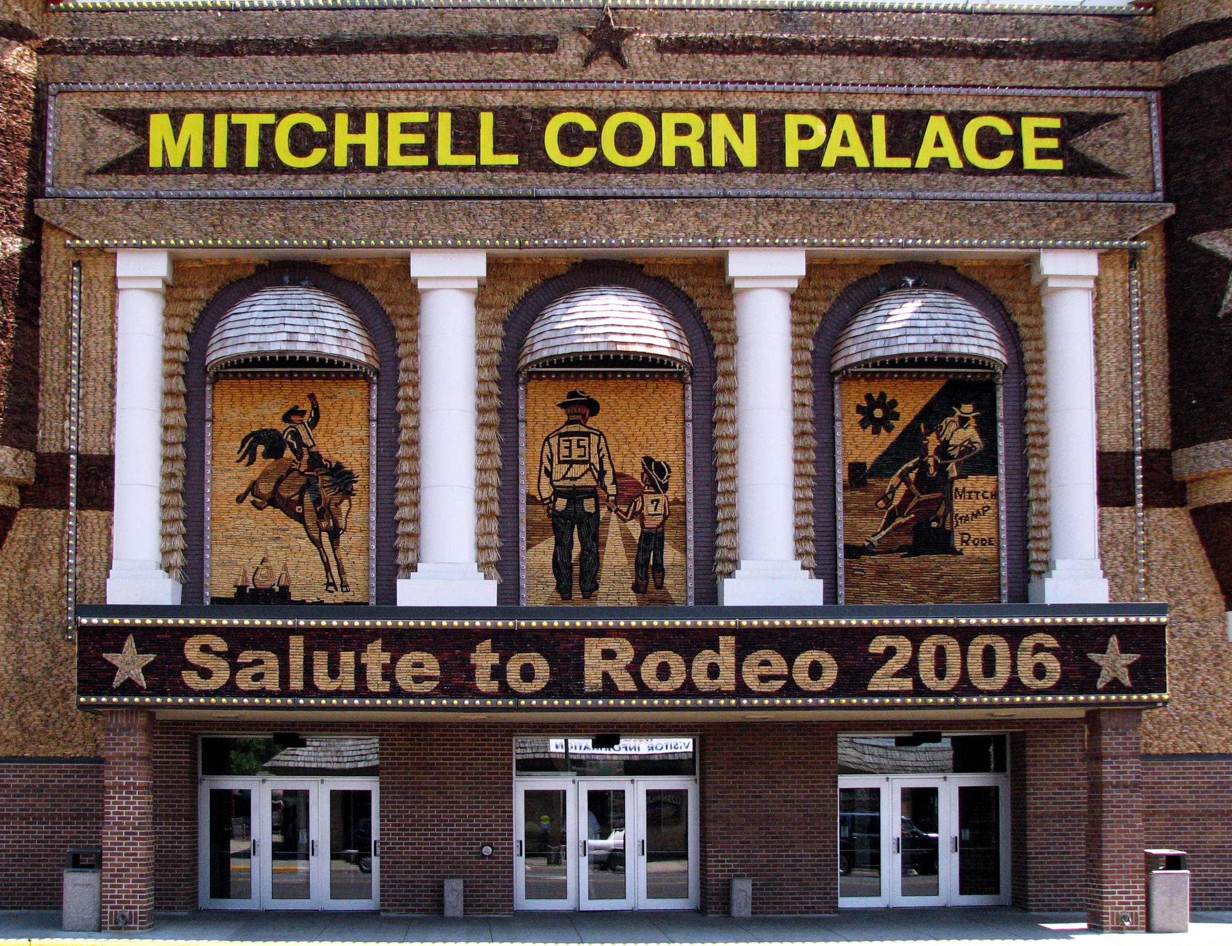 north america, Corn Palace, Salute to Rodeo 2006, road trip, great plains